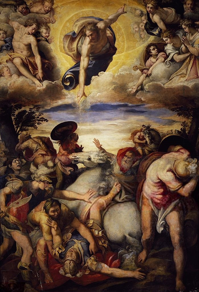 Taddeo Zuccari, Conversione di San Paolo, church of San Marcello al Corso, Rome, 1564–1566